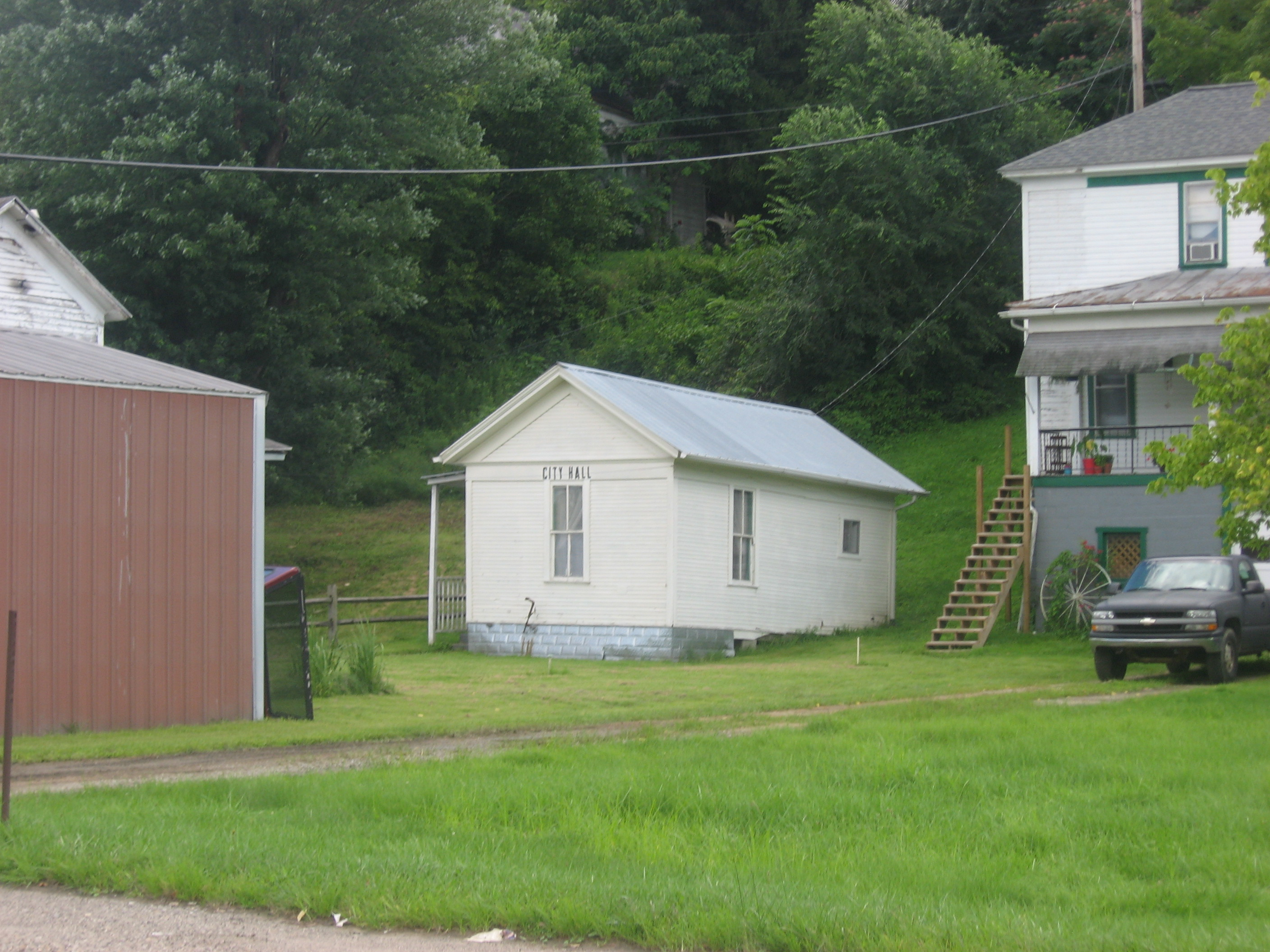 Front and western side of the Friendly City Building and Jail, located on the southern side of West Virginia Route 2 in Friendly, West Virginia, United States. Built in 1901, it is listed on the National Register of Historic Places.